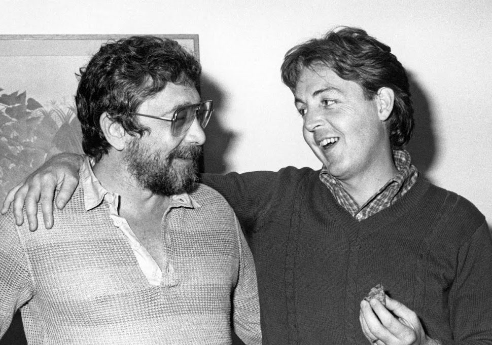 Walter Yetnikoff and Paul McCartney share a moment of joy.